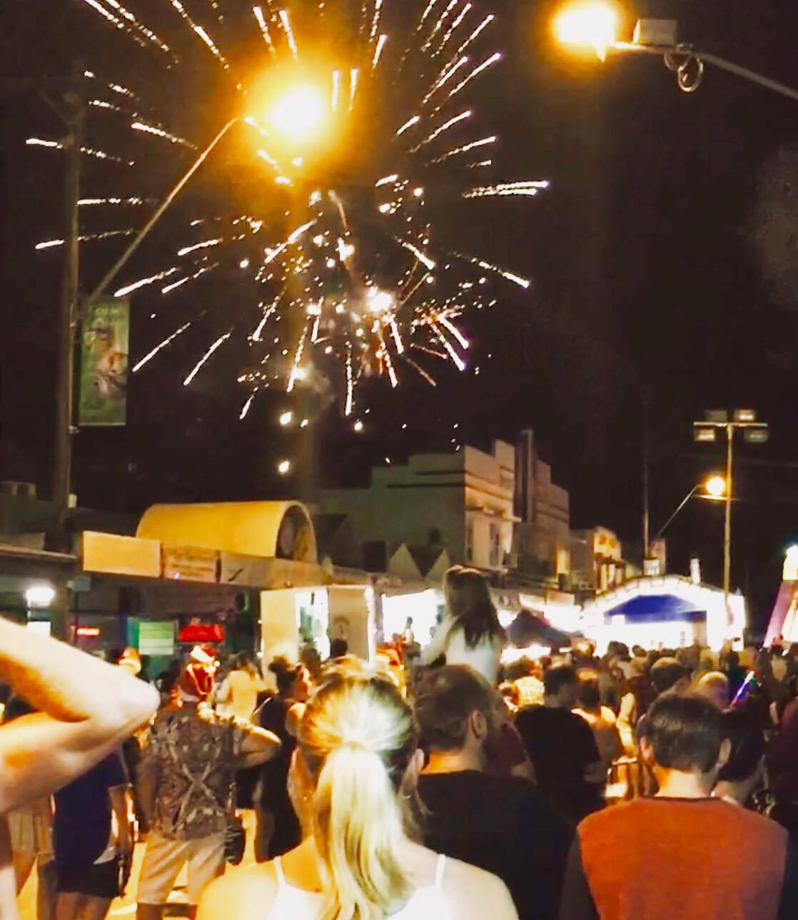 Fireworks at the 2016 Proserpine Christmas street fair